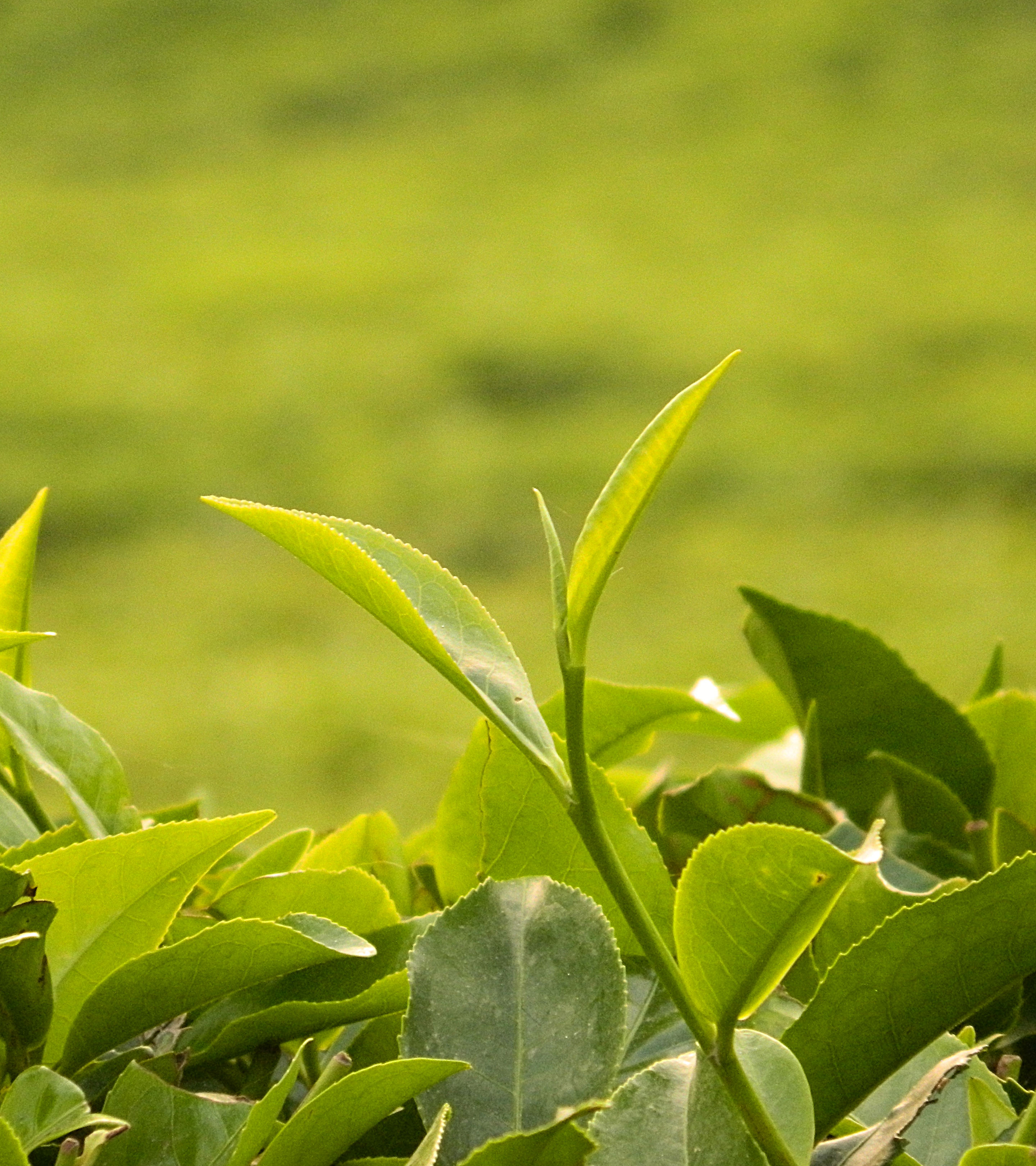 Photograph of a fresh tea plant bud.